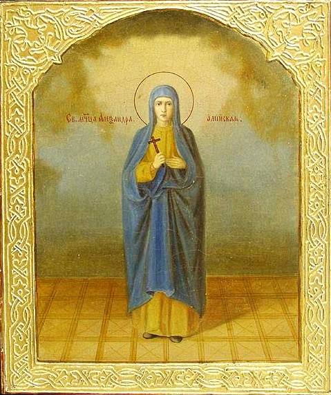 Saint Alessandra di Amiso